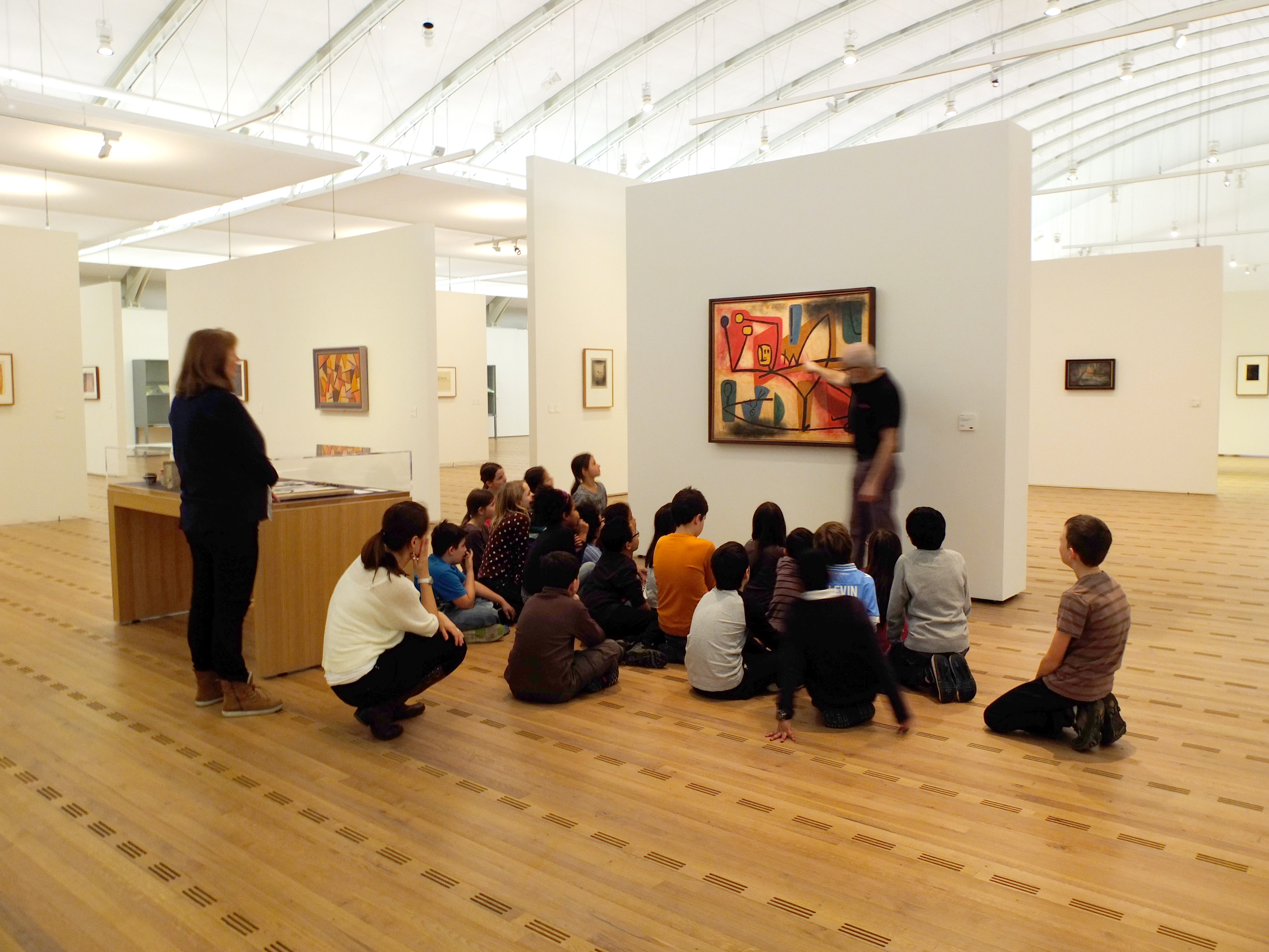 A class of schoolchildren listen to their teacher explaining a Paul Klee painting. Zentrum Paul Klee, Bern, Switzerland, Feb. 2014.